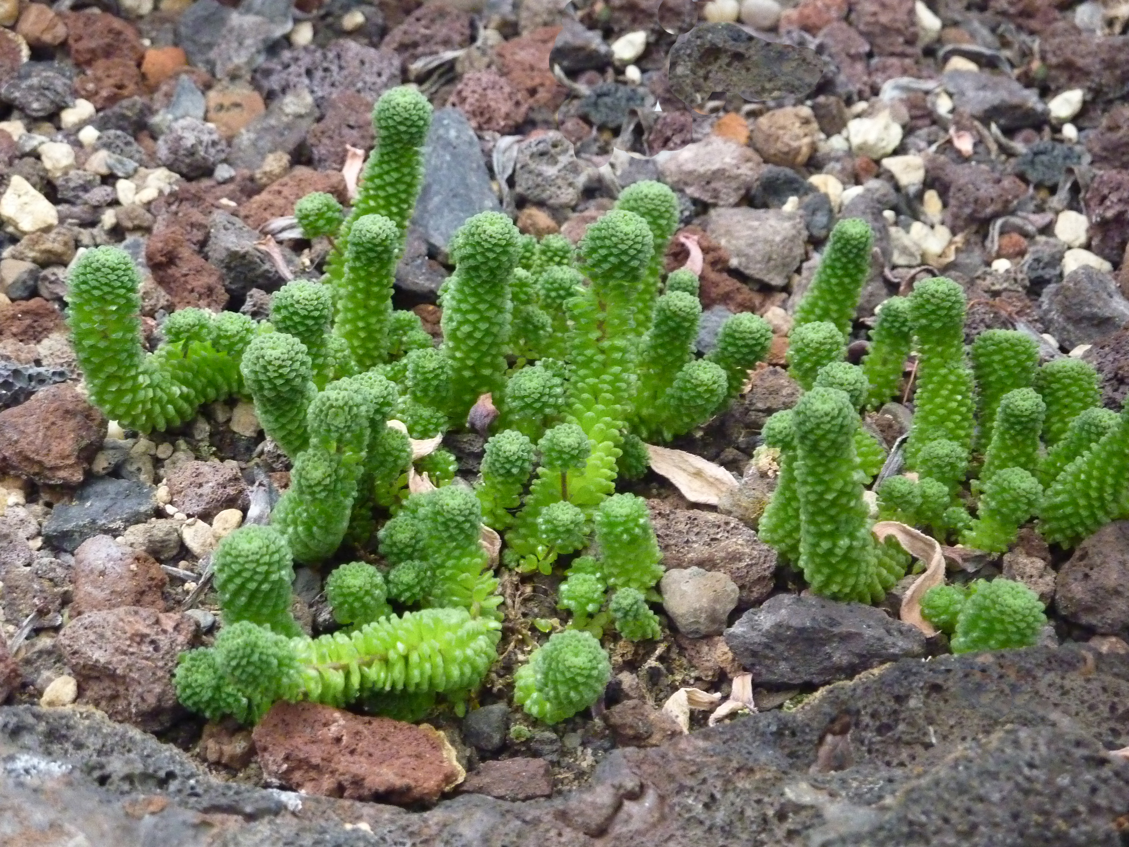 Davvisámegiella: Monanthes polyphylla subsp. polyphlla in the Sukkulentensammlung Zürich